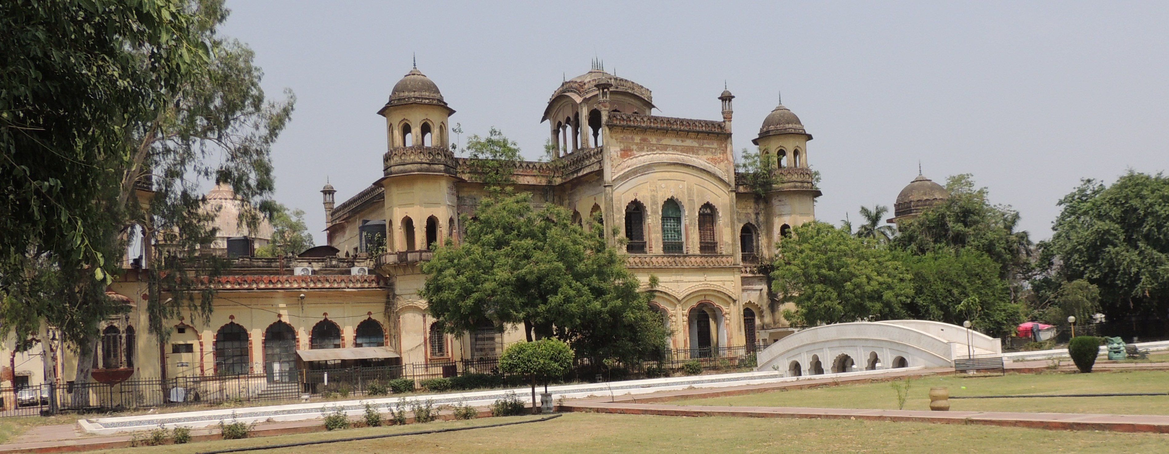 Bhatkhande Sangeet Sansthan, Qaisarbagh (Lucknow)